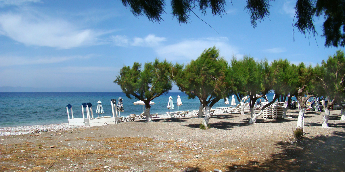 Kremasti, Rhodes, Greece.